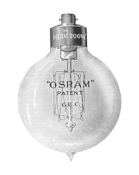 Osram lamp, 1910, high candle power type